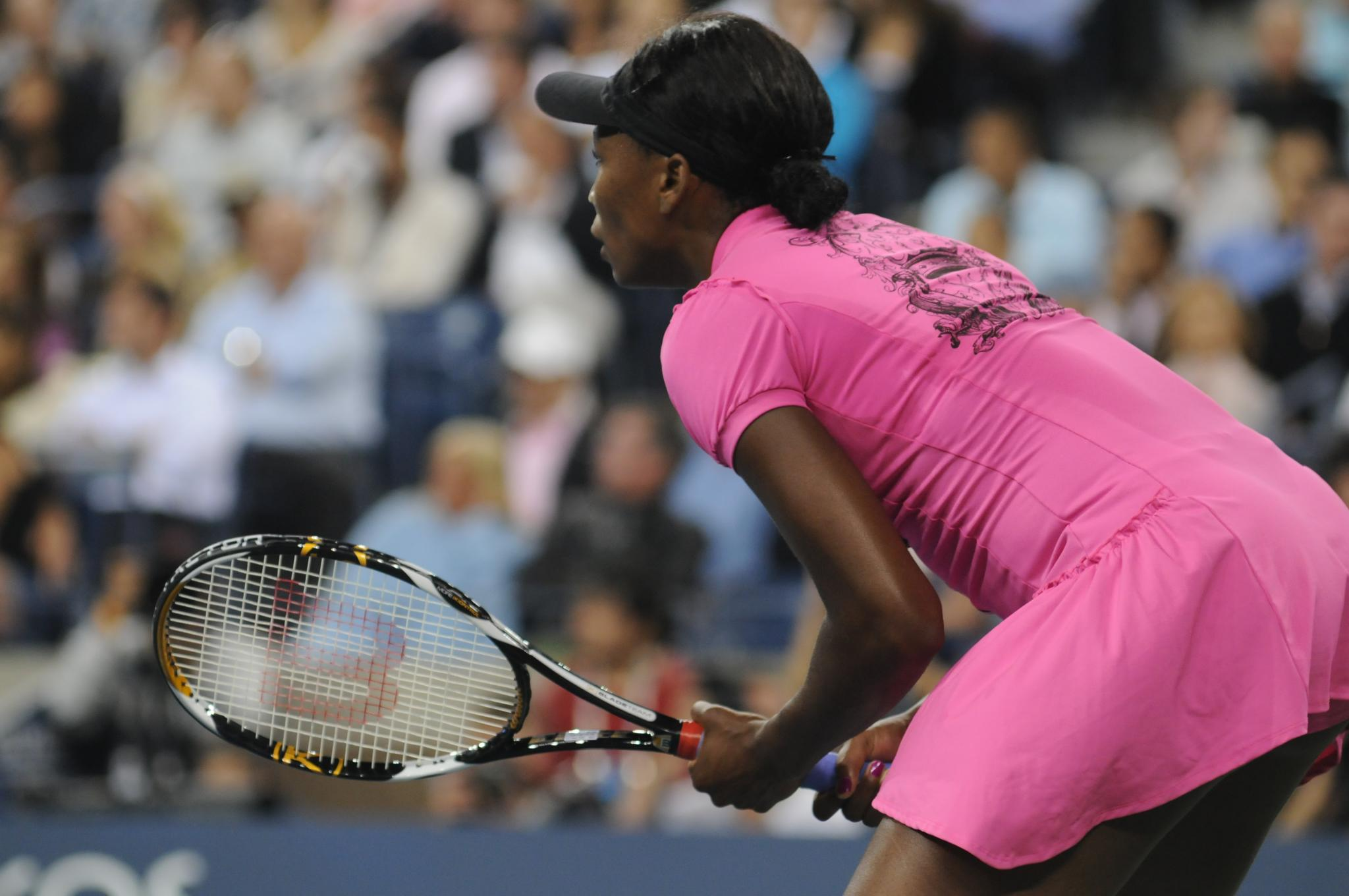 Venus Williams at the 2009 US Open